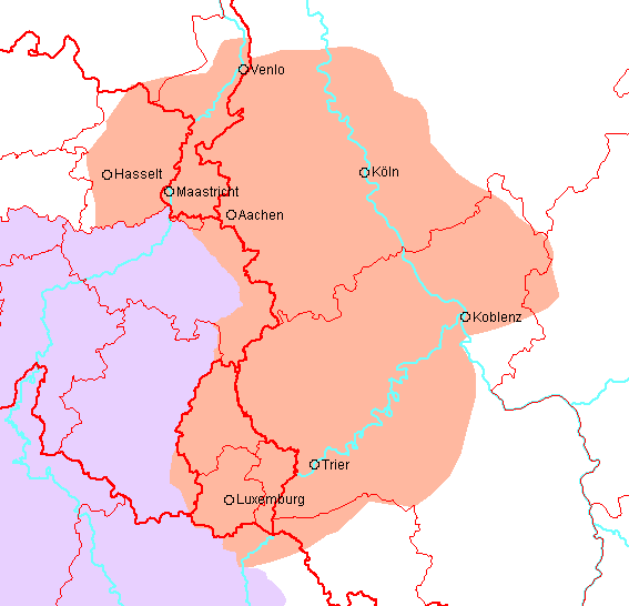 Map of region where german dialects have a pitch accent